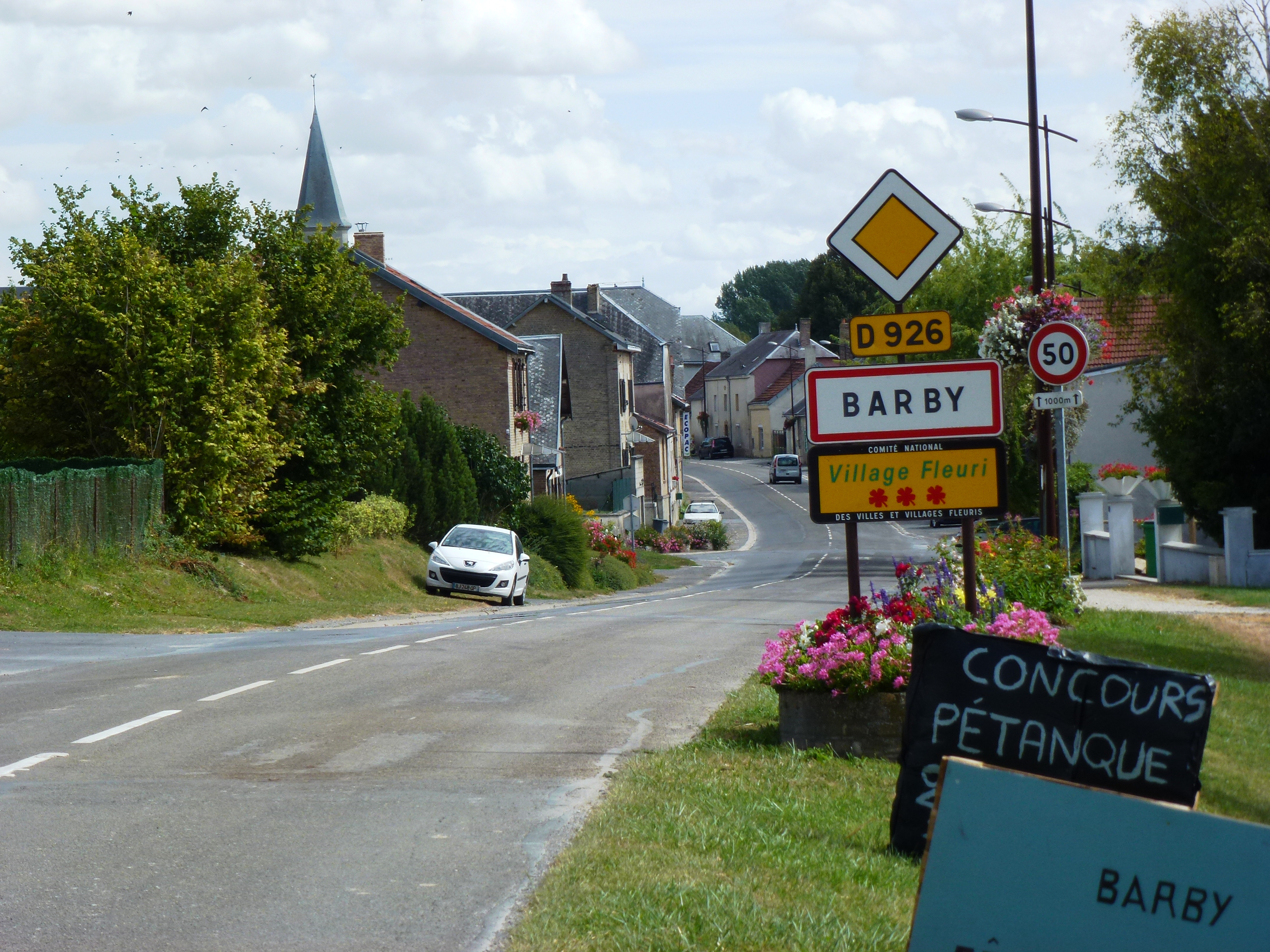 Barby (Ardennes) city limit sign